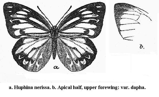 Huphina nerissa = Cepora nerissa (Fabricius, 1775) a: upperside of C. n. nerissa b: upper forewing tip of H. n. var. dapha = C. n. dapha (Moore, [1879])